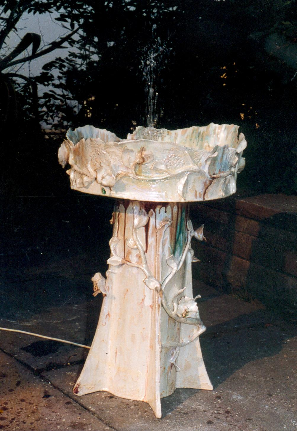 Fine ceramic artwork as an indoor fountain